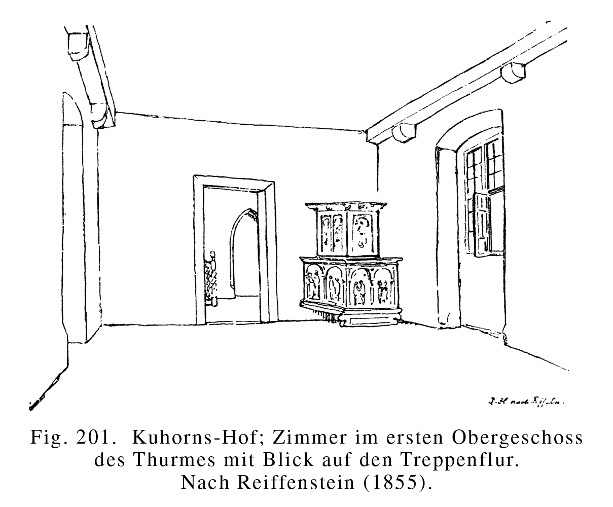 Frankfurt on the Main: Kuehhornshof, room in the first floor of the tower with a view of the staircase